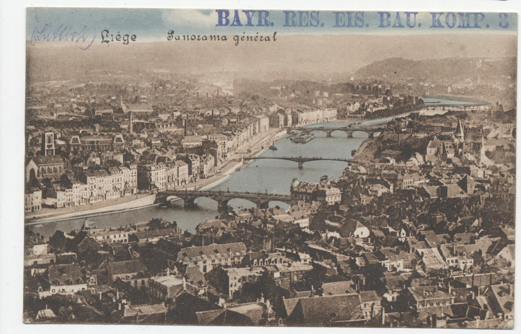 Several field postcards from Hans Boscher to his wife from Grodno / Hrodna in today's Belarus.